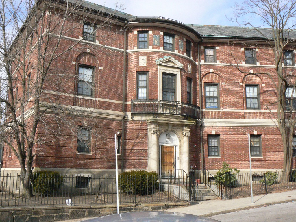 One of the buildings formerly belonging to the now-closed St. Joseph Catholic Church in the Roxbury neighborhood of Boston, Massachusetts.